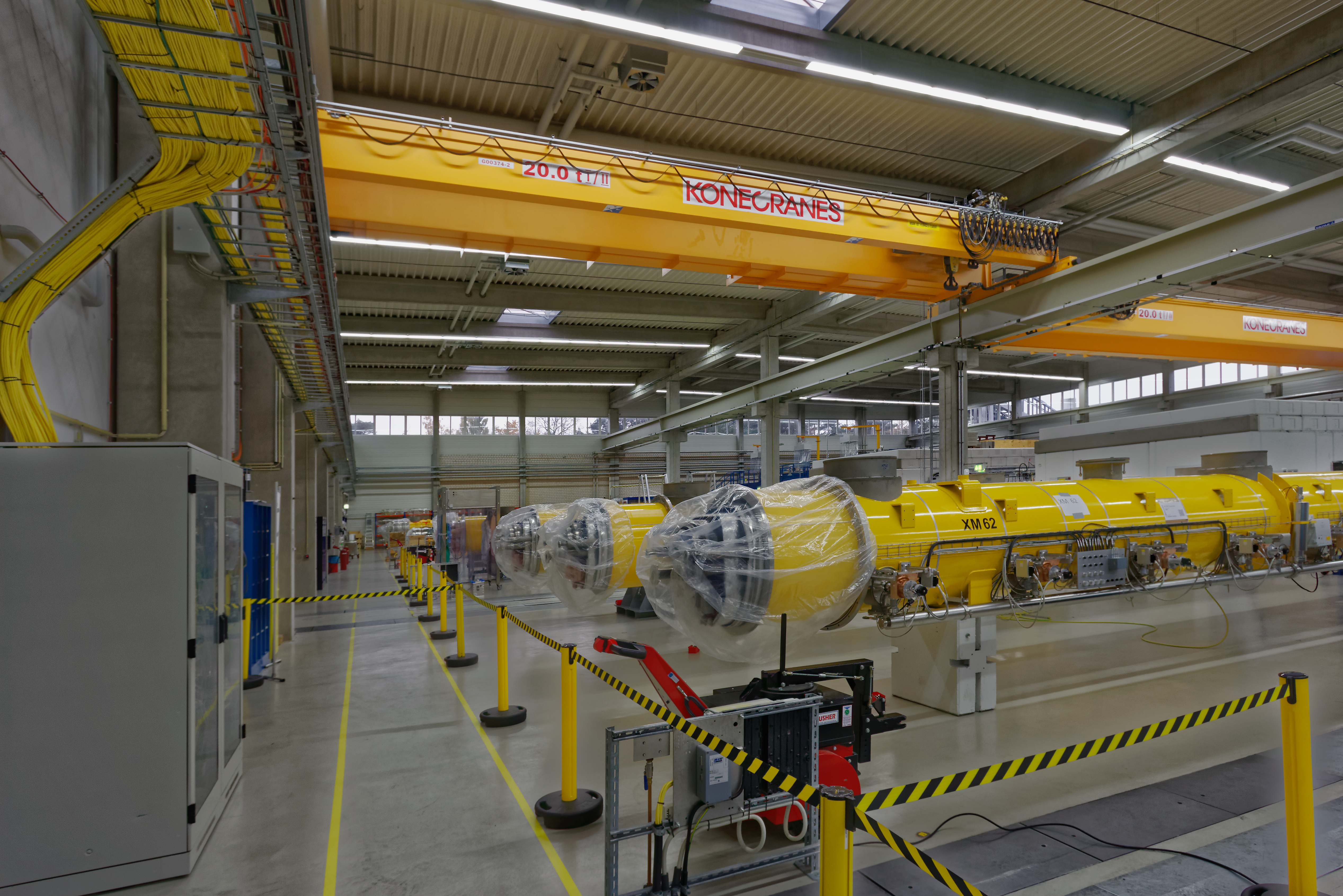 European XFEL at DESY, accelerator modules